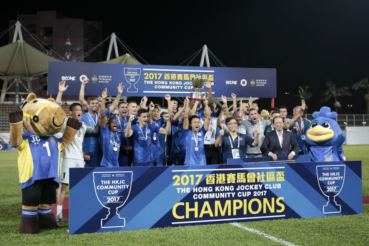 2017 HK Community Cup Champion Kitchee